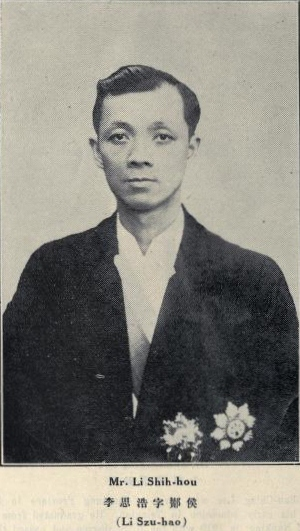 Li Sihao (1882 - 1968)